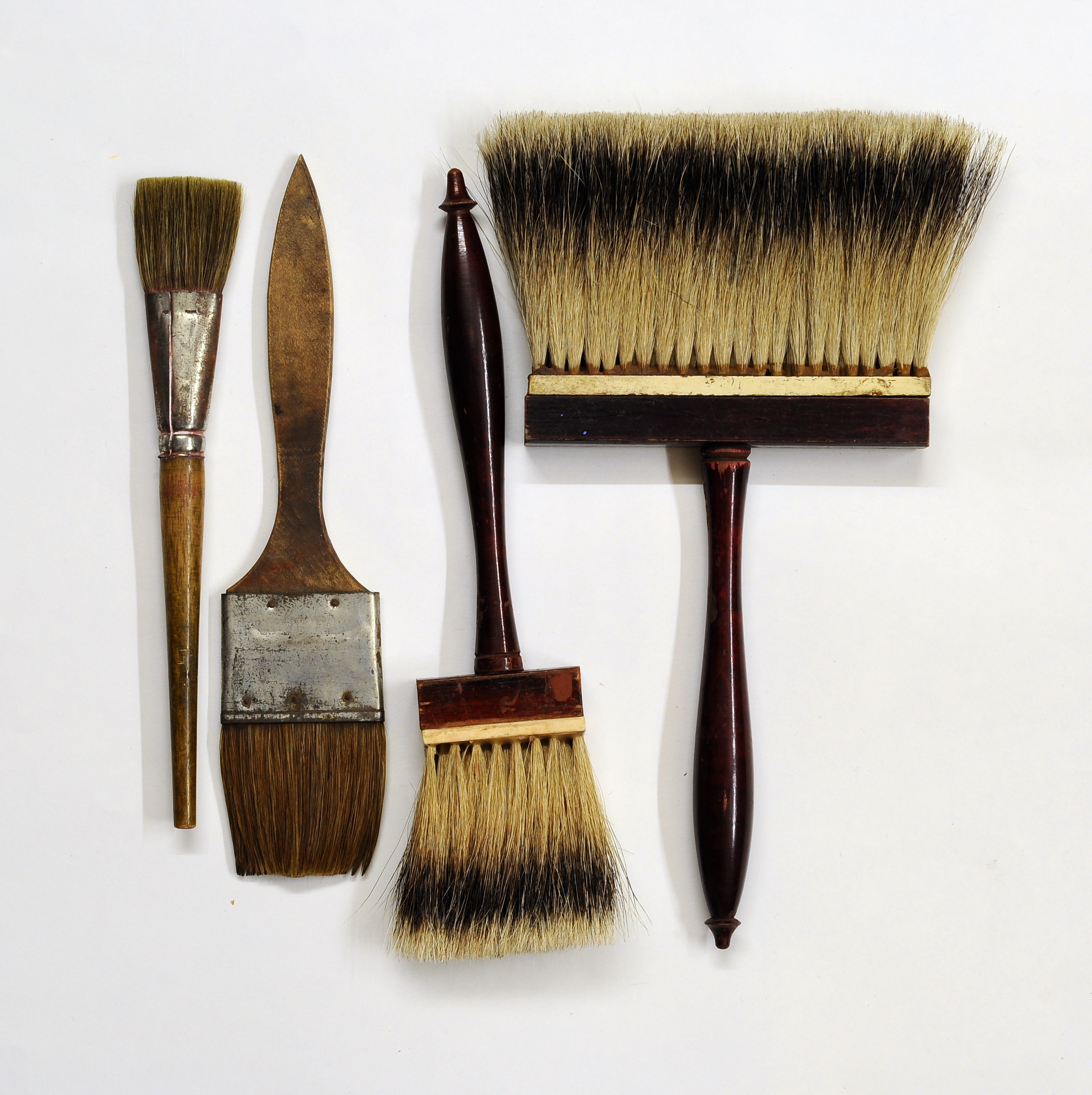 Various brushes for painting on glass